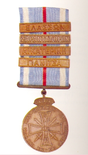 Greek campaign medal for the First Balkan War (1912–13), obverse